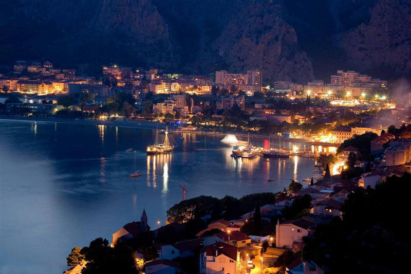 Pirate battle, Omiš 2009.